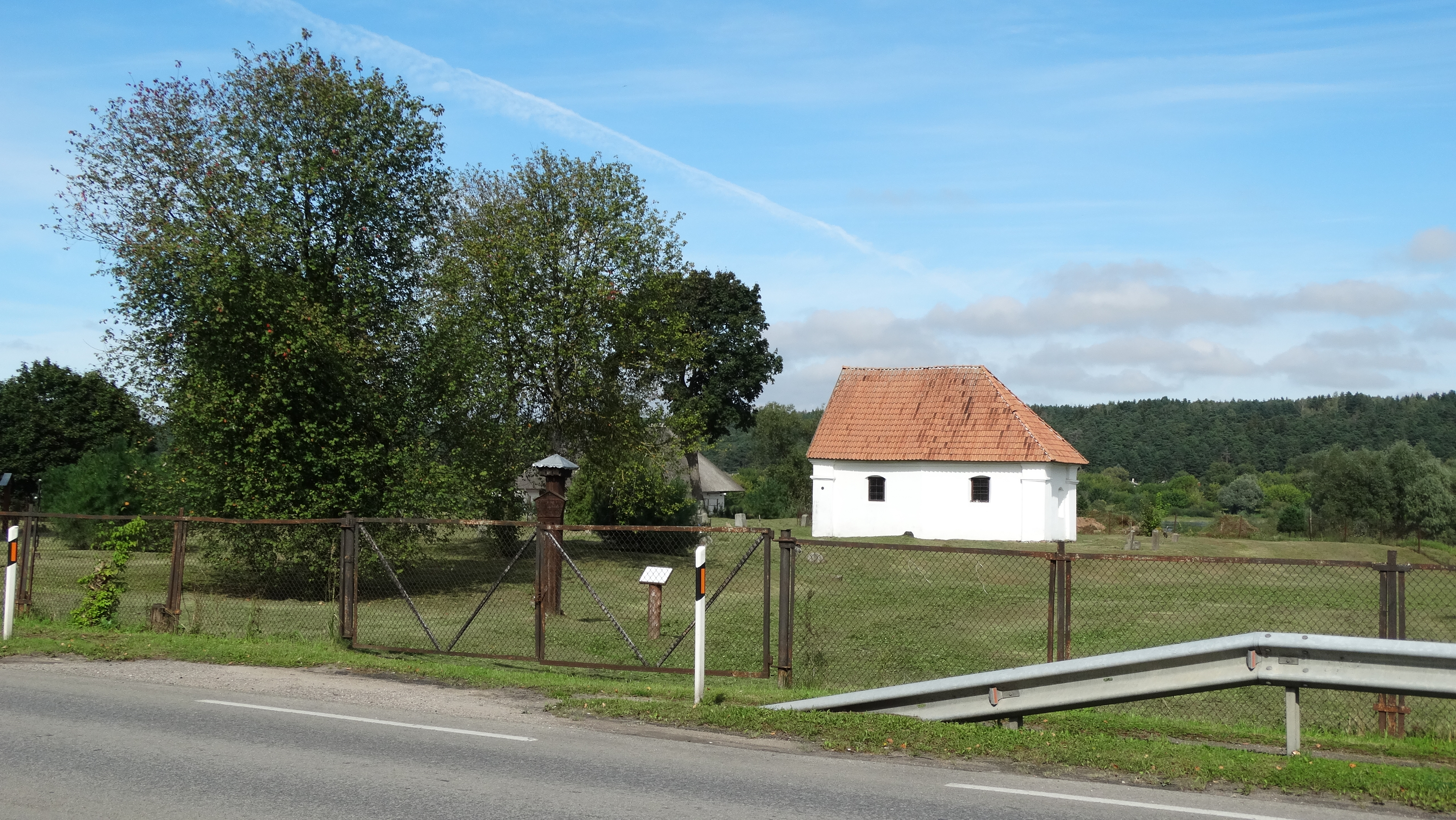 Chapel in Zapyškis, Kaunas District, Lithuania